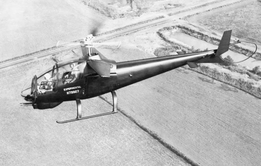 Bell Model 207 Sioux Scout only prototype (N73927) flight tested in 1963-1964.